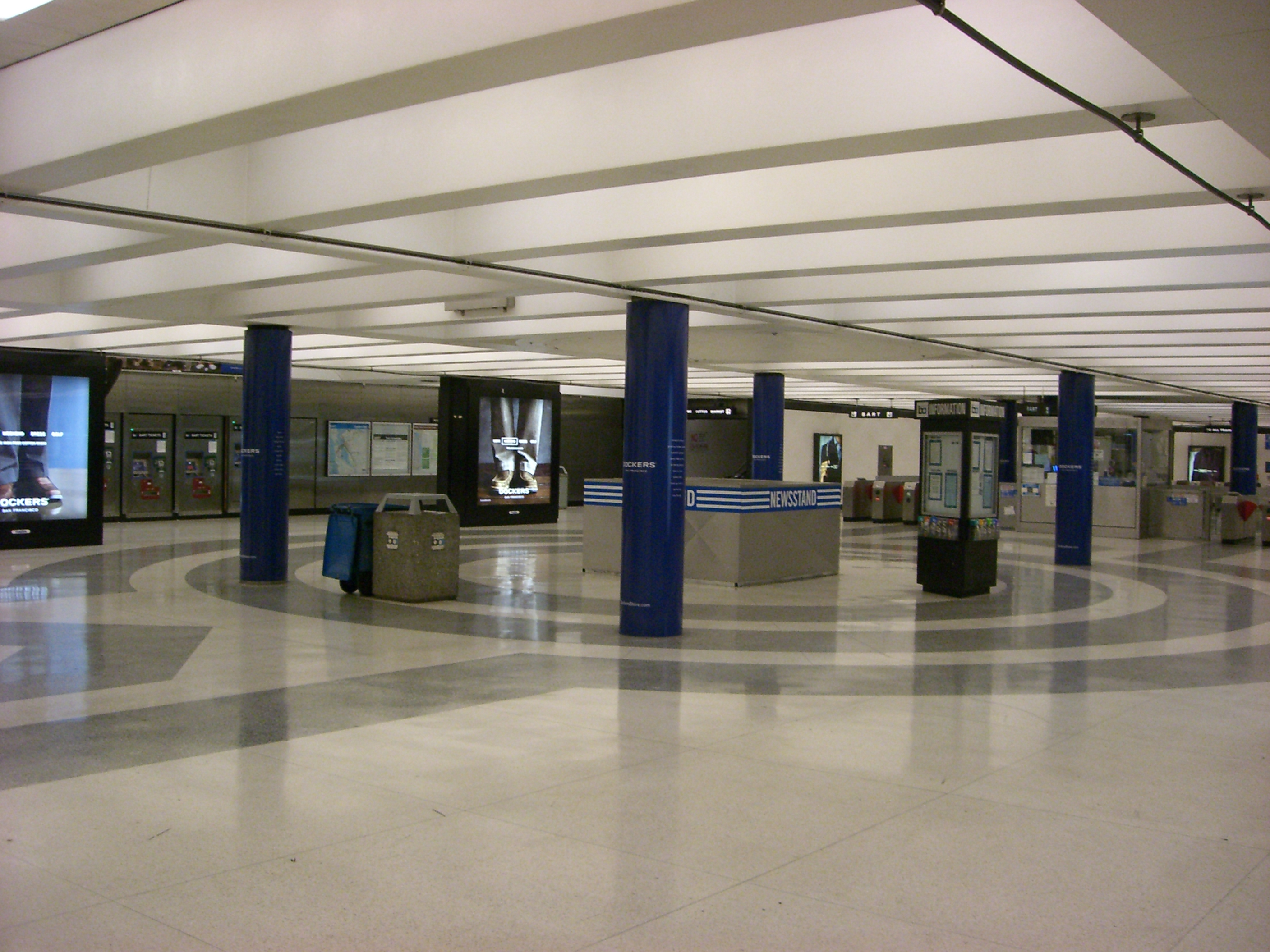 Mezzanine of Montgomery station. Bay Area Rapid Transit (BART).